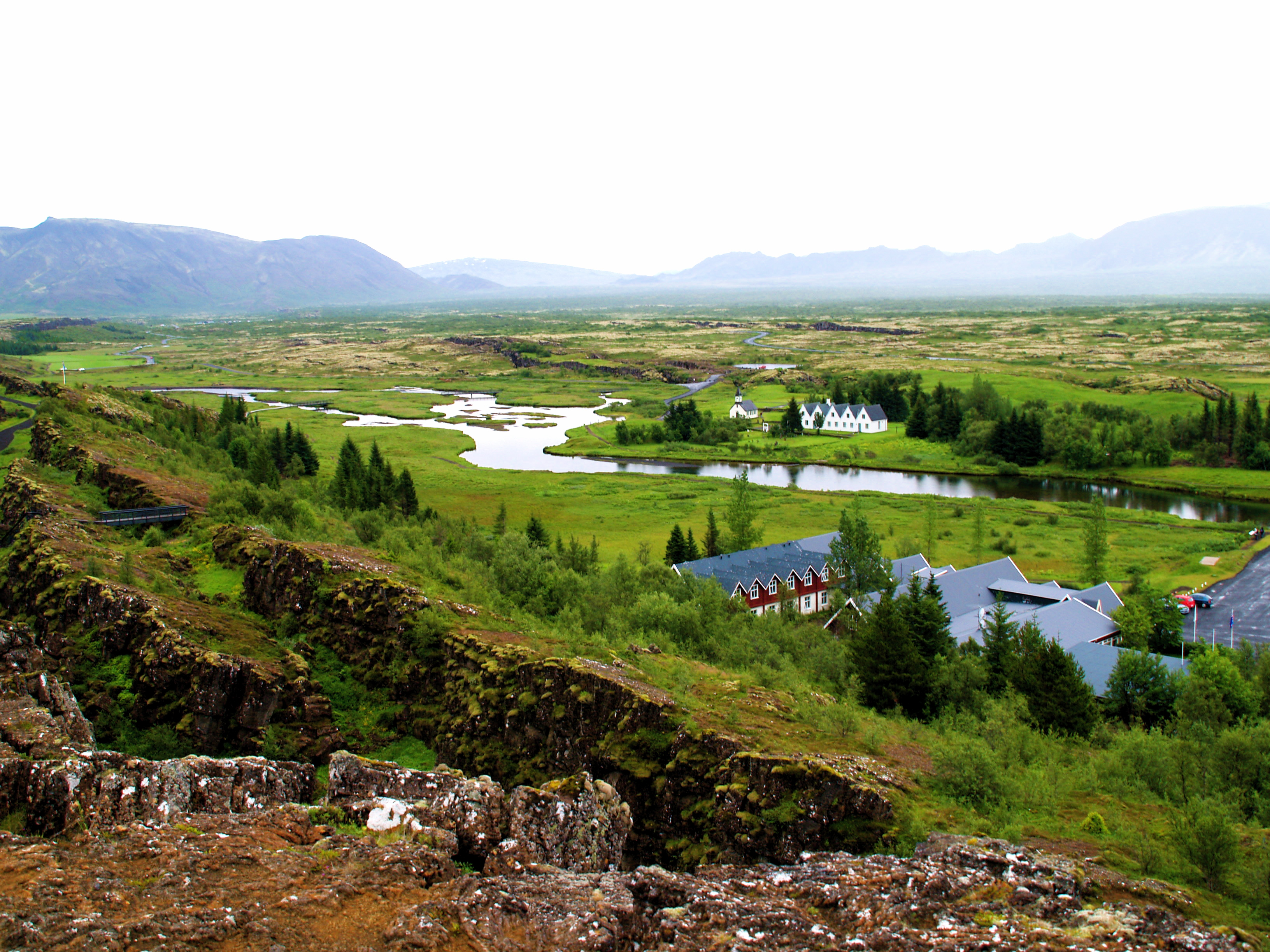 Þingvellir National Park, Iceland, in July 2006